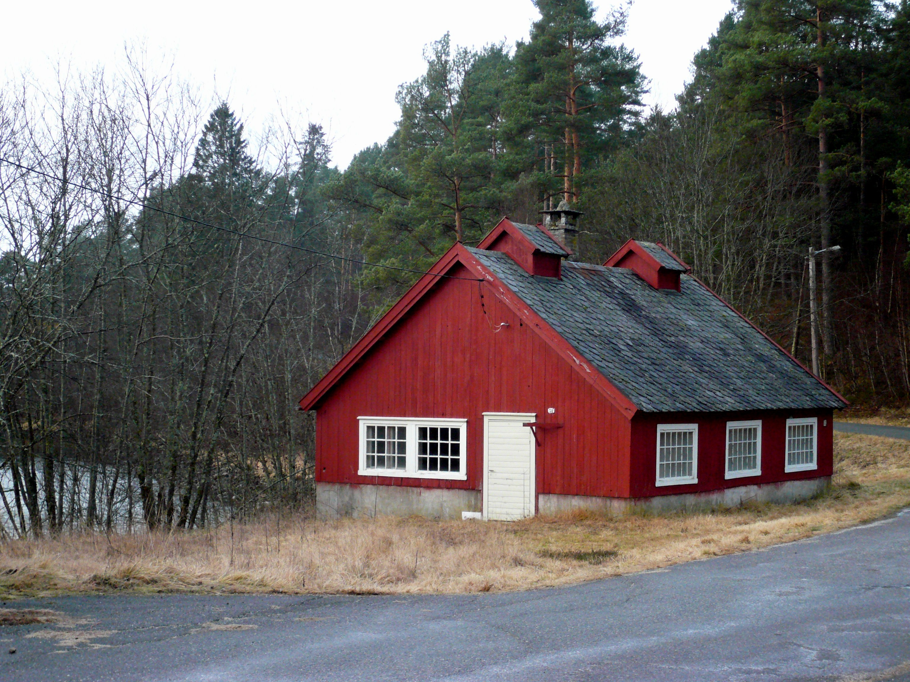 Bømoen, Voss, Norway